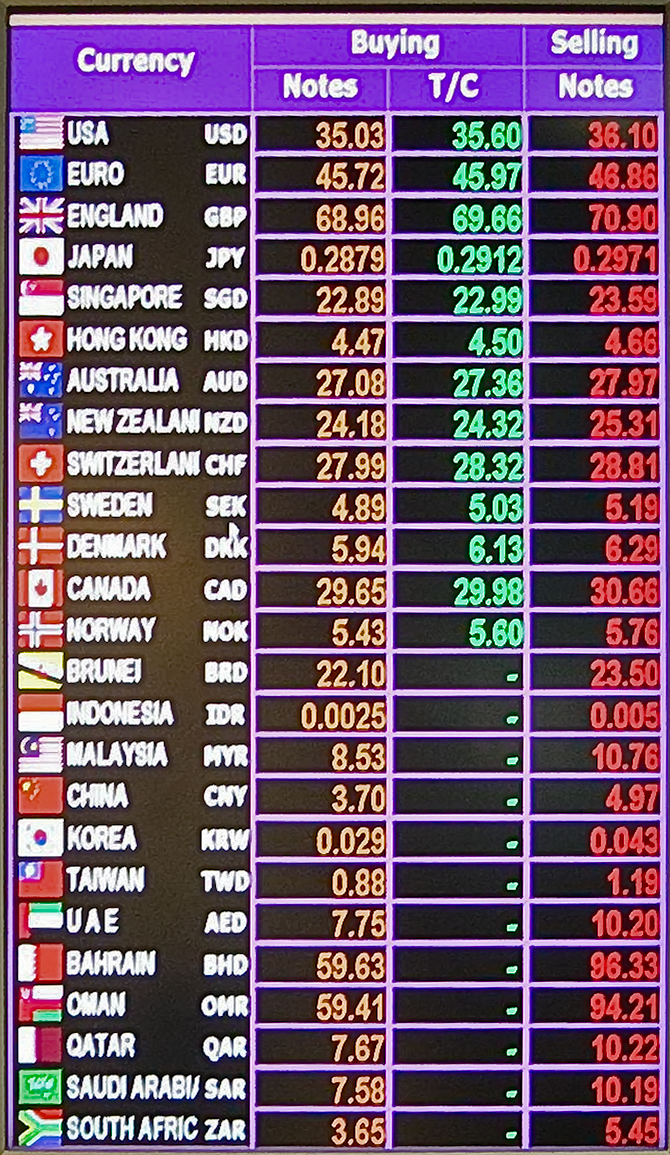 Exchange rates display, seen at Suvarnabhumi International Airport, Thailand